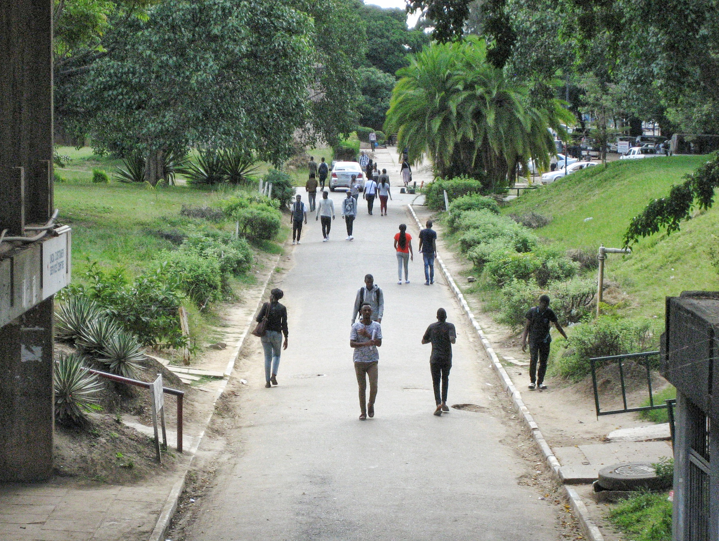 University of Zambia students on the move This is an image with the theme "Africa on the Move or Transport" from: Zambia